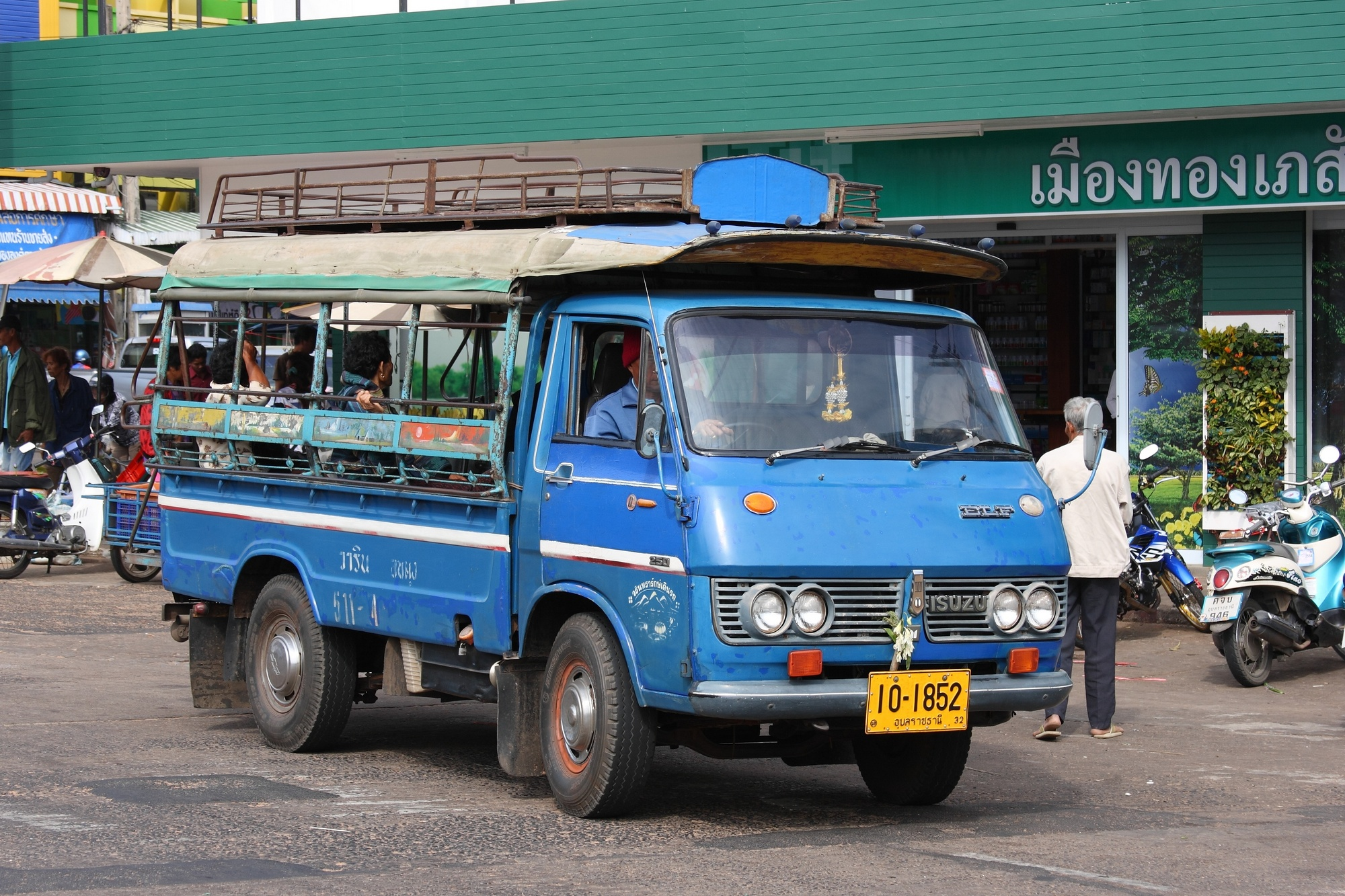 Songthaew in Warin Chamrap, Ubon Ratchathani Province, Thailand (Isuzu Elf)